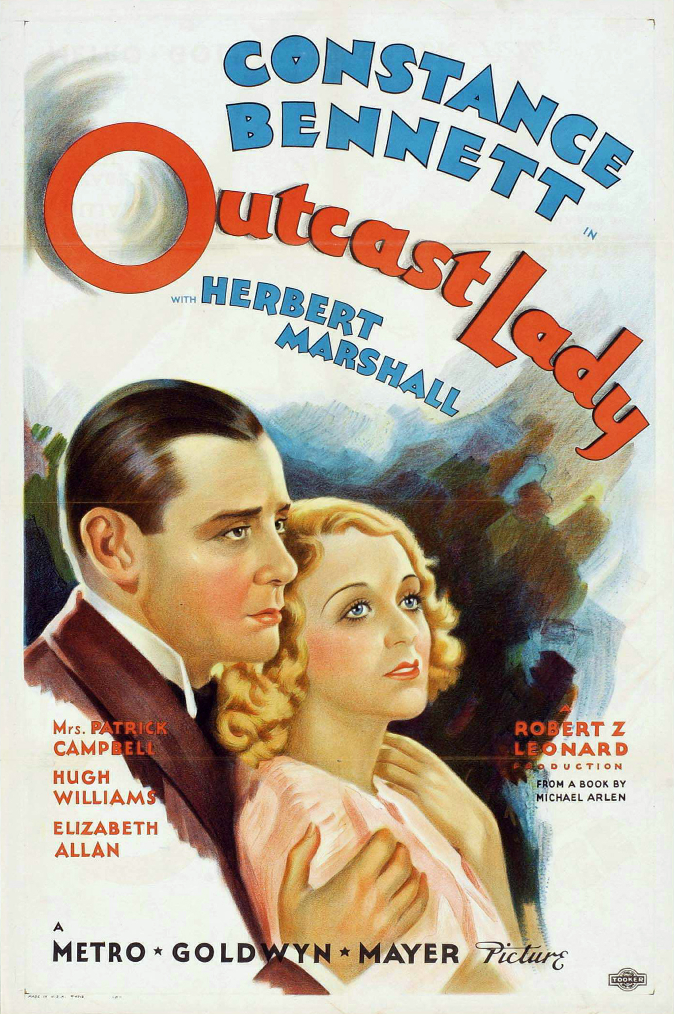 Poster for the film Outcast Lady From left: Herbert Marshall, Constance Bennett